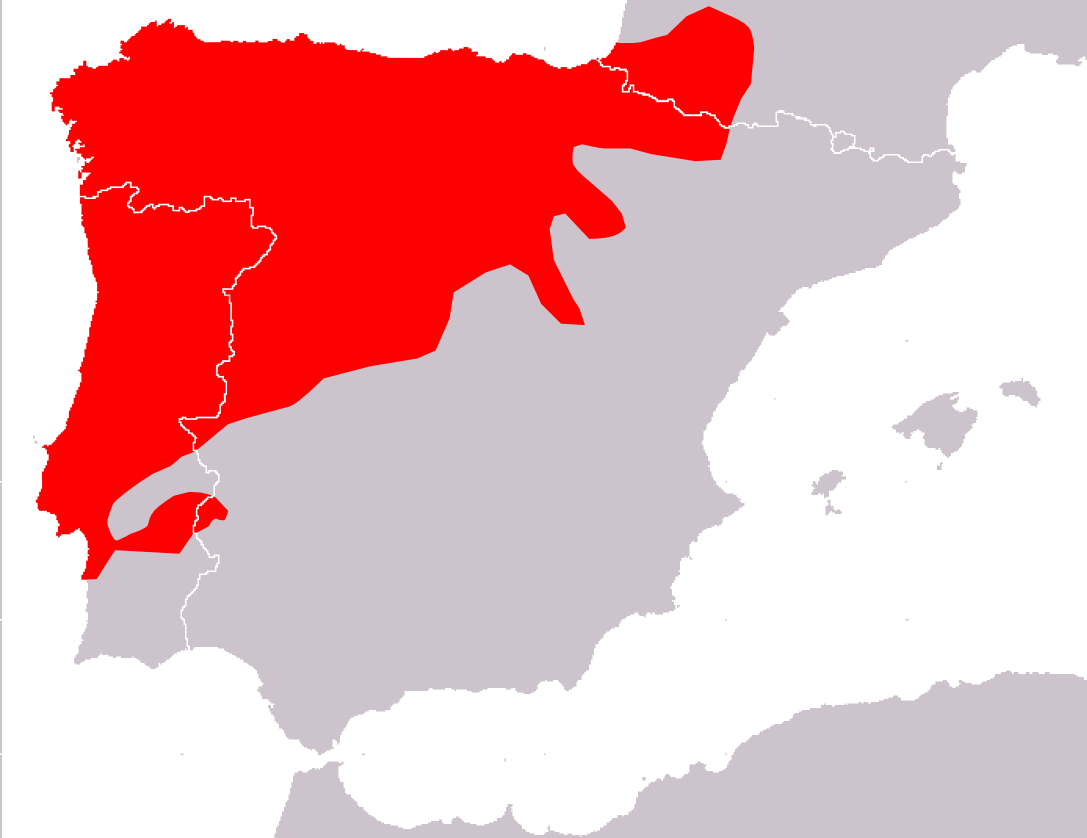 Distribution range of Microtus lusitanicus